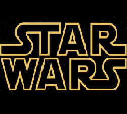 Star Wars logo